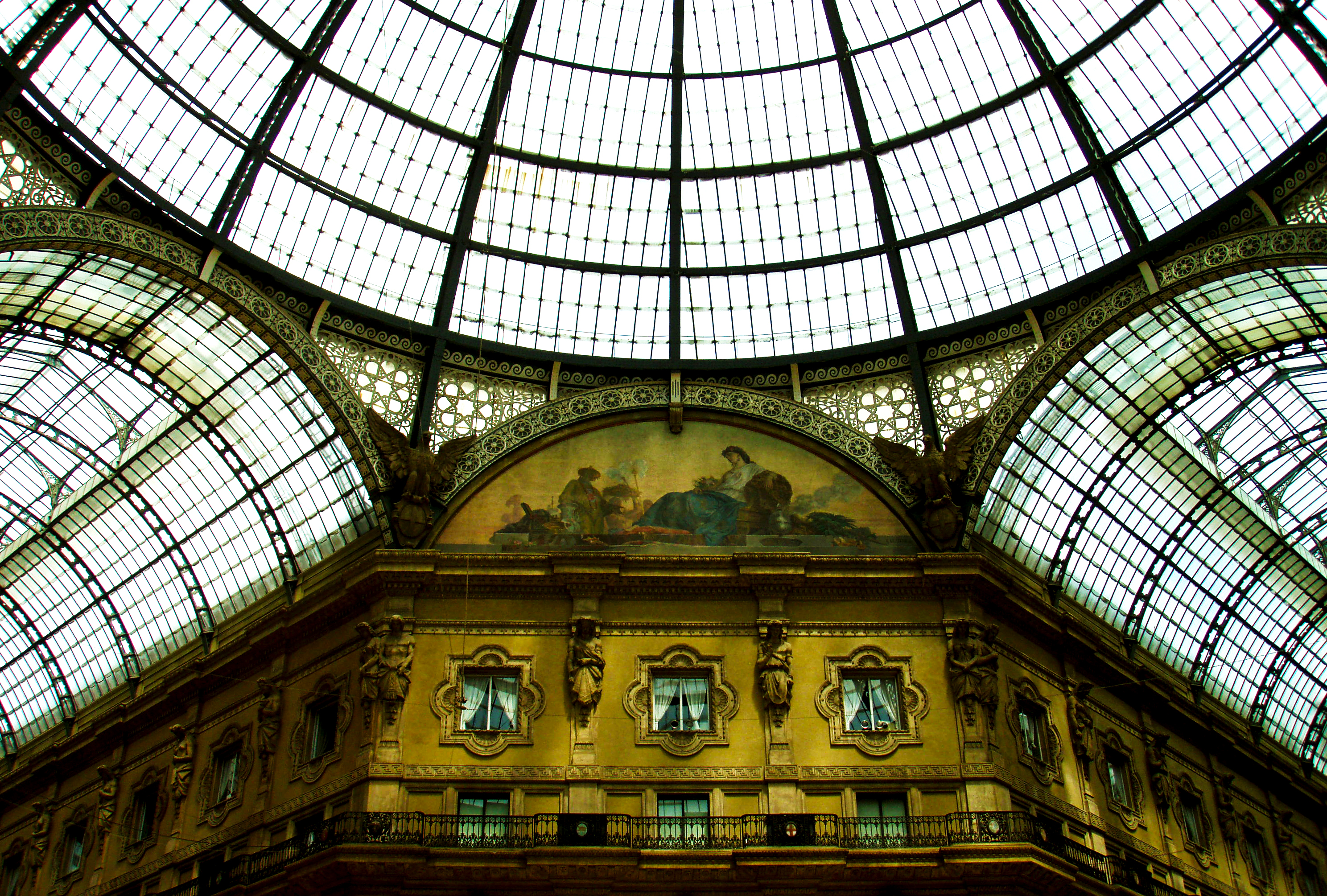 The Gallery Vittorio Emanuele II Milan, Italy